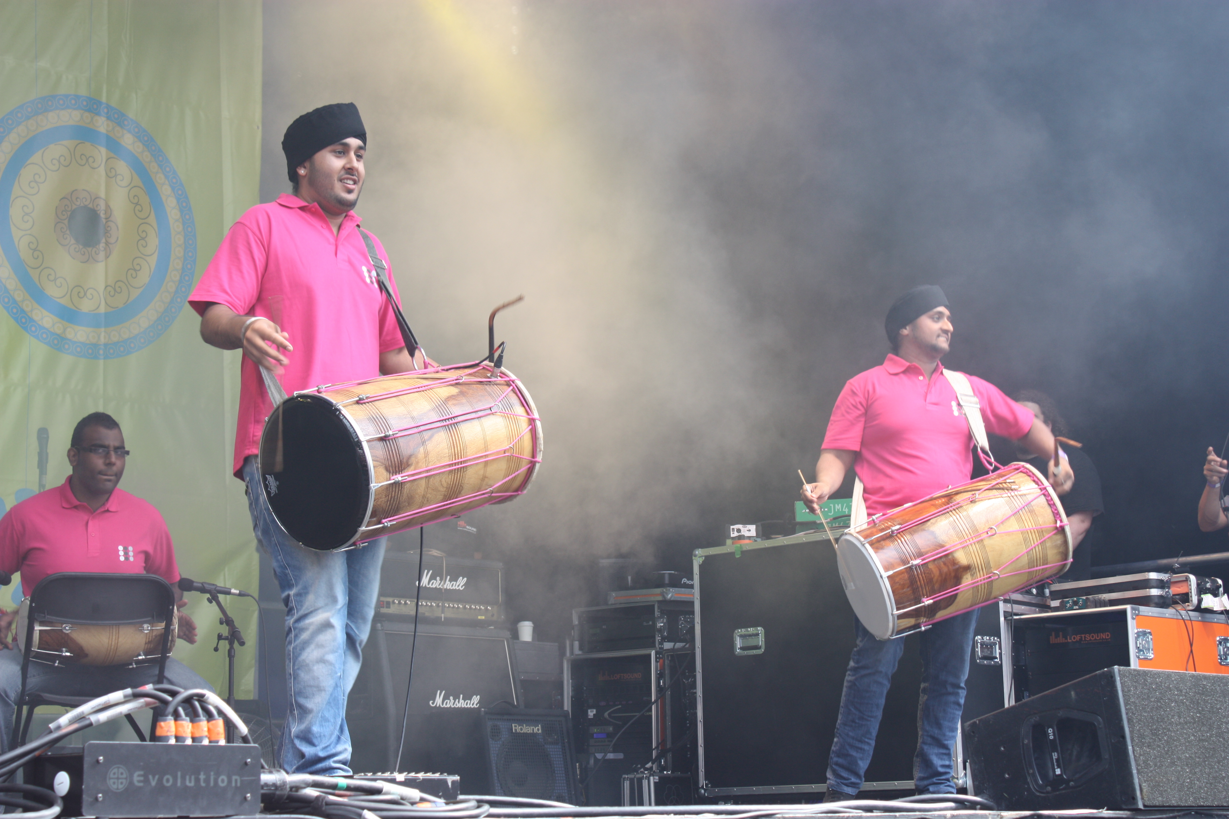 Virtue Dholis perform at Belfast Mela, Botanic Gardens, Belfast, August 2012